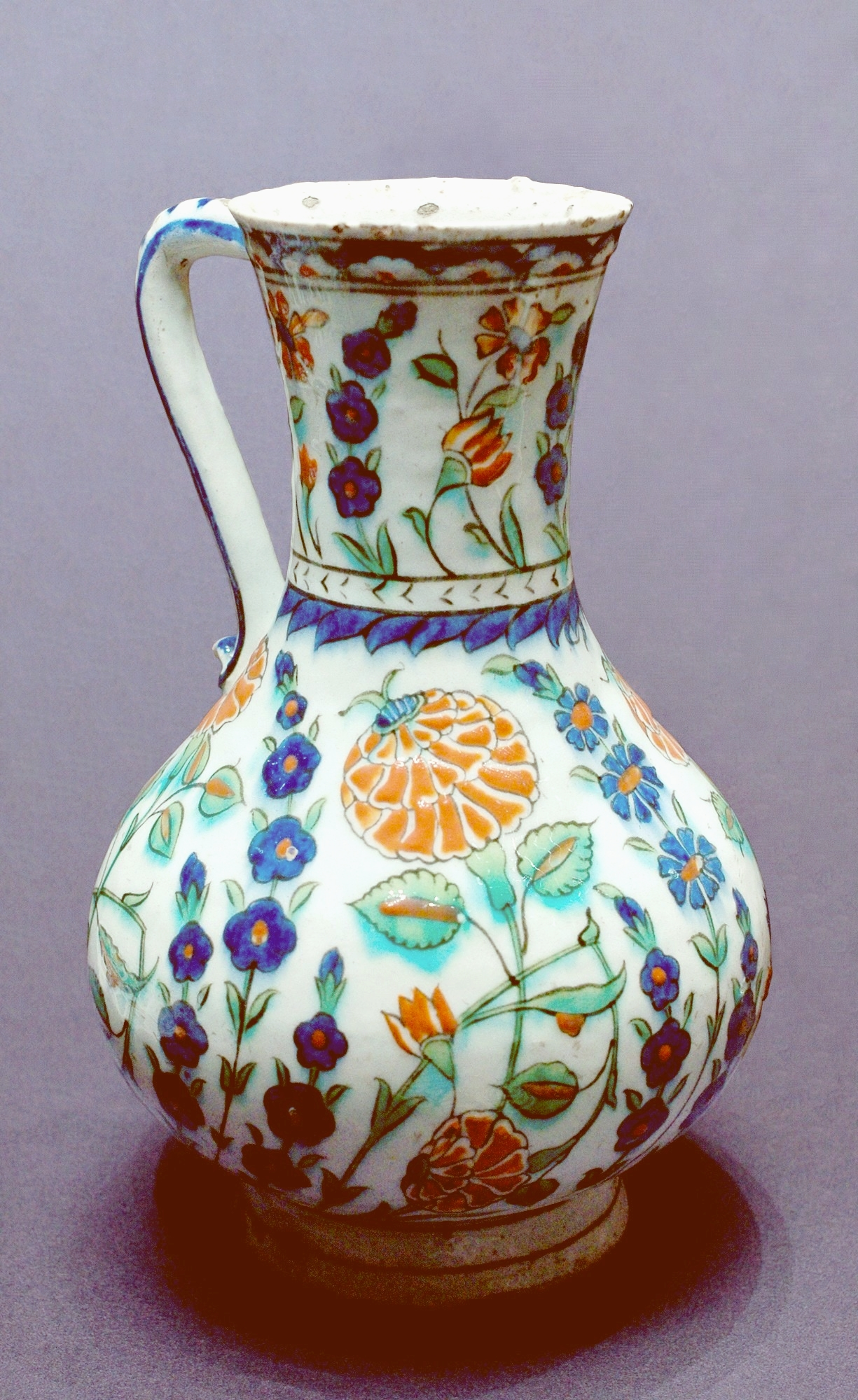 Pitcher with flower decoration. Made in Iznik, Ottoman Empire (modern Turkey), ca. 1560–1570. Composite body with slip decoration, underglaze painted.